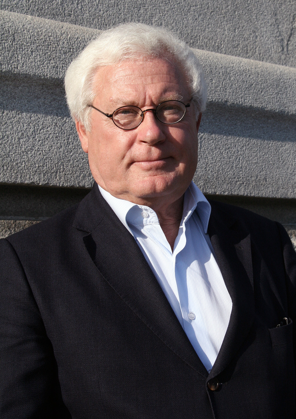 Wilfried Seipel